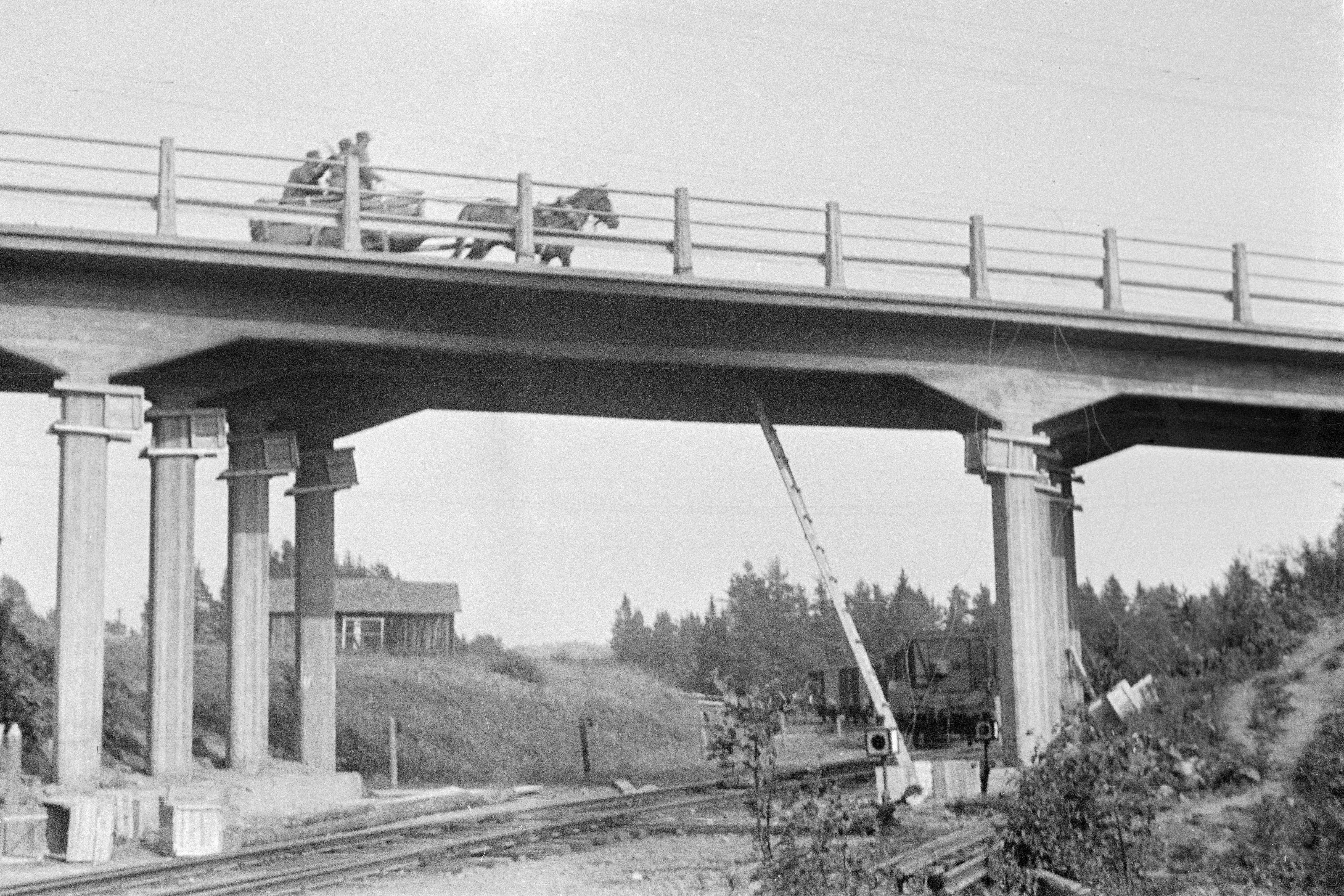 Radan yli johtava maantiesilta.